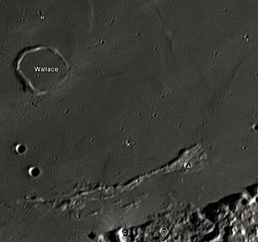 Wallace lunar crater as seen from Earth with satellite craters labeled